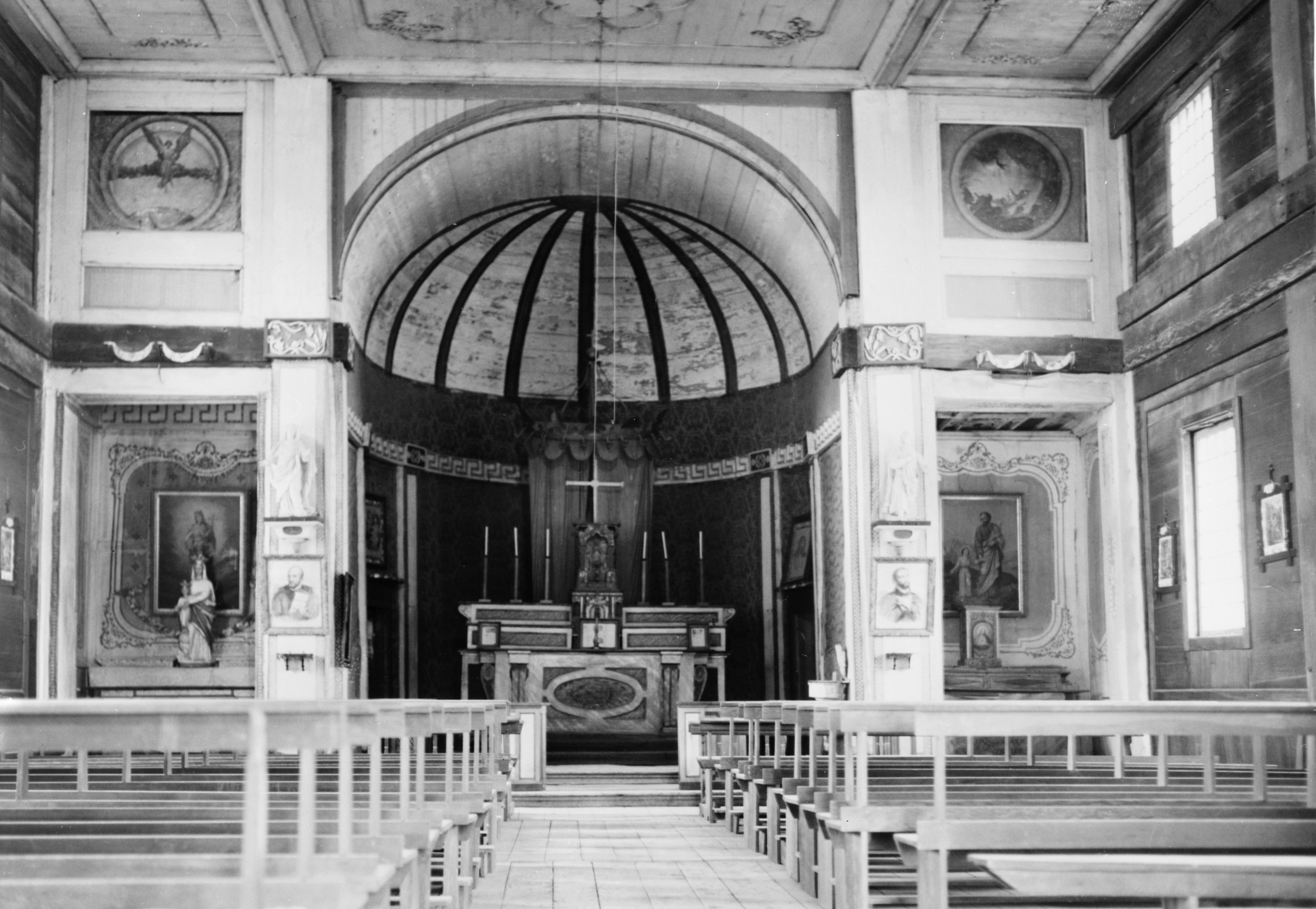 Cataldo Mission, also known as Sacred Heart Mission, Cataldo vicinity, Kootenai County, Idaho. Interior view of apse.